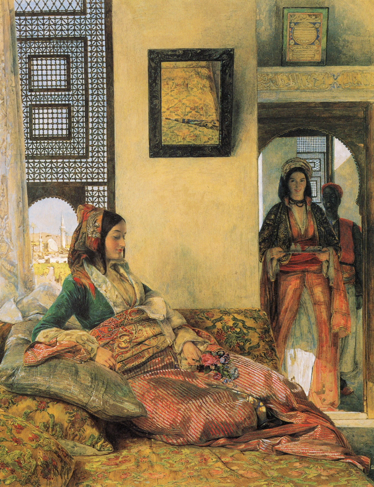 Arabian Nights